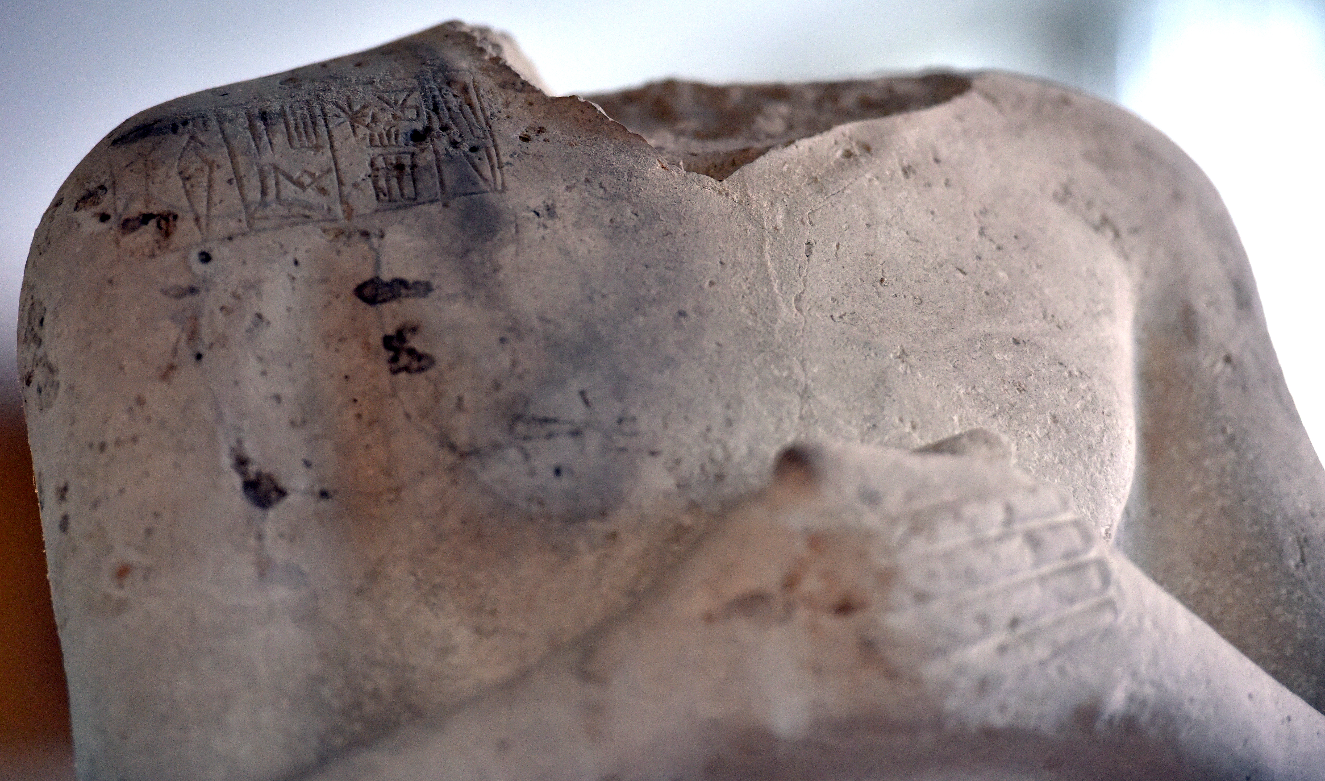 Detail of a headless statue. The name of the Sumerian deity Ninshubur (also Ninshubar, Nincubura, or Ninšubur) appears in the right shoulder's cuneiform inscription. From Adab (Bismaya), Iraq. Early Dynastic period, 2600-2370 BCE. On display at the Sumerian Gallery of the Iraq Museum in Baghdad, Iraq.